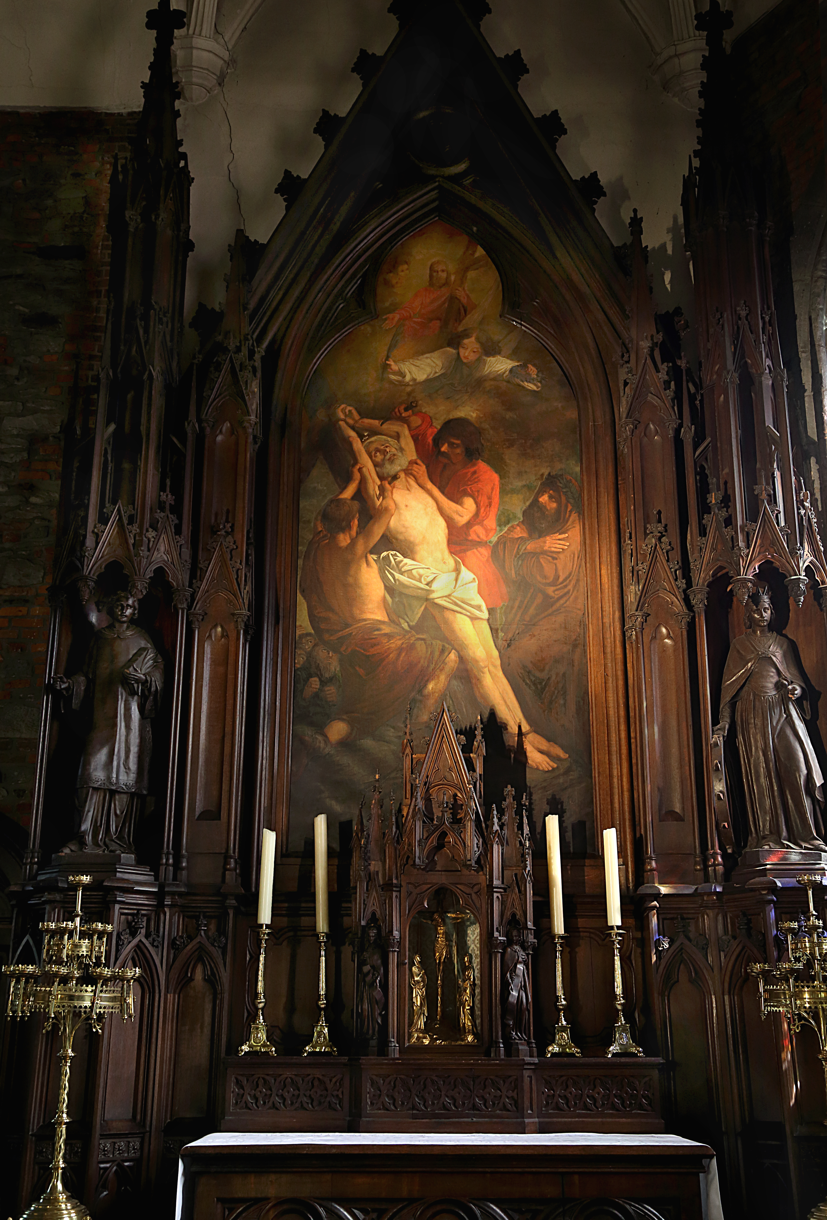 Oil painting on canvas by Lieven Vermote with the title « Martyrdom of Saint Bartholomew », painted in 1859. Situated next to the altar of the church Saint Bartholomew of Mouscron, Belgium.